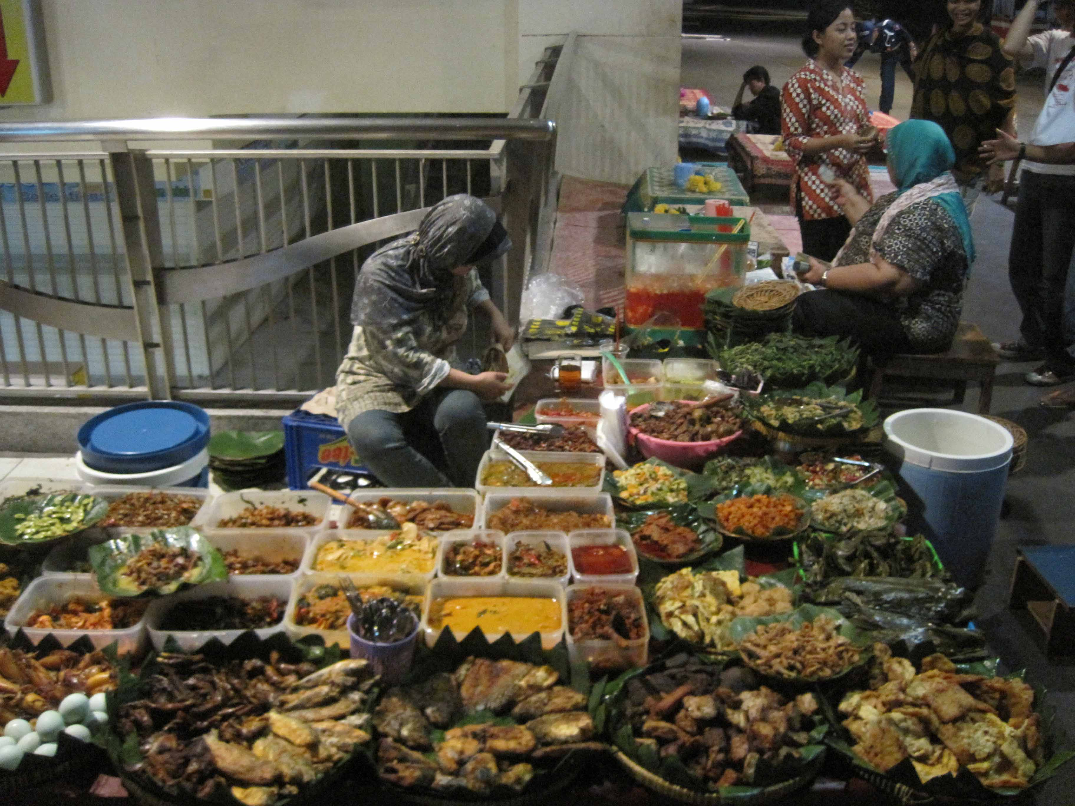 Lesehan, open-air streetside restaurant in Blok M, Jakarta, Indonesia.